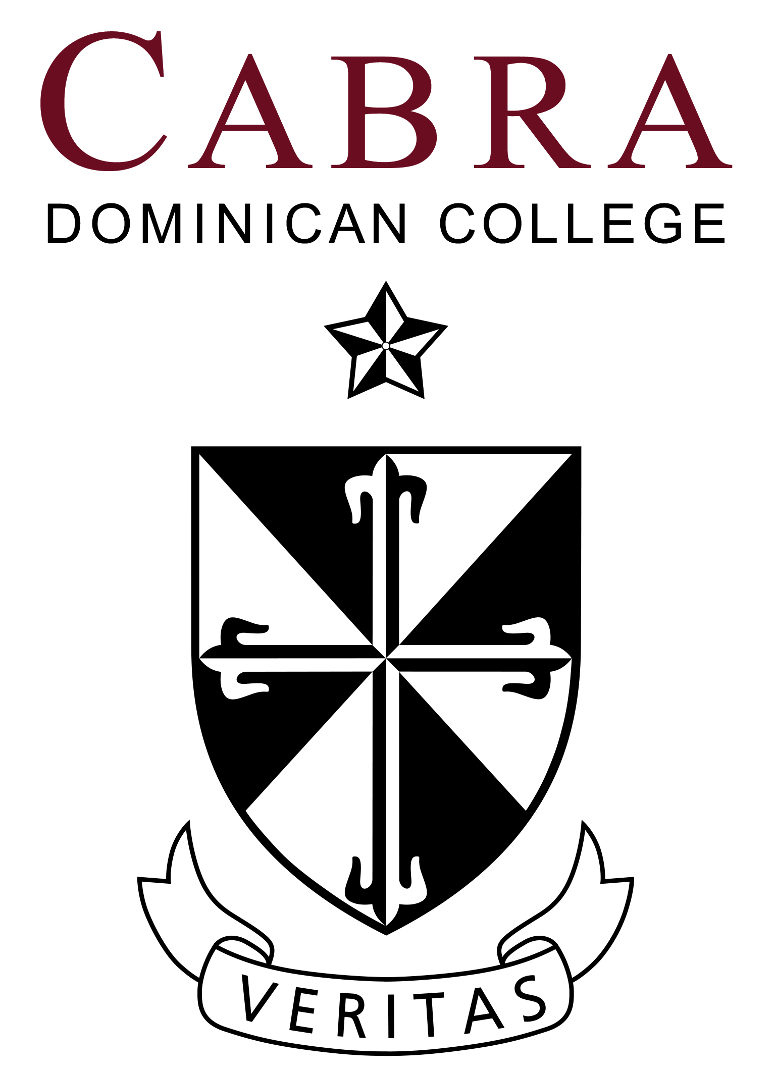 Crest and logo of Cabra Dominican College Adelaide